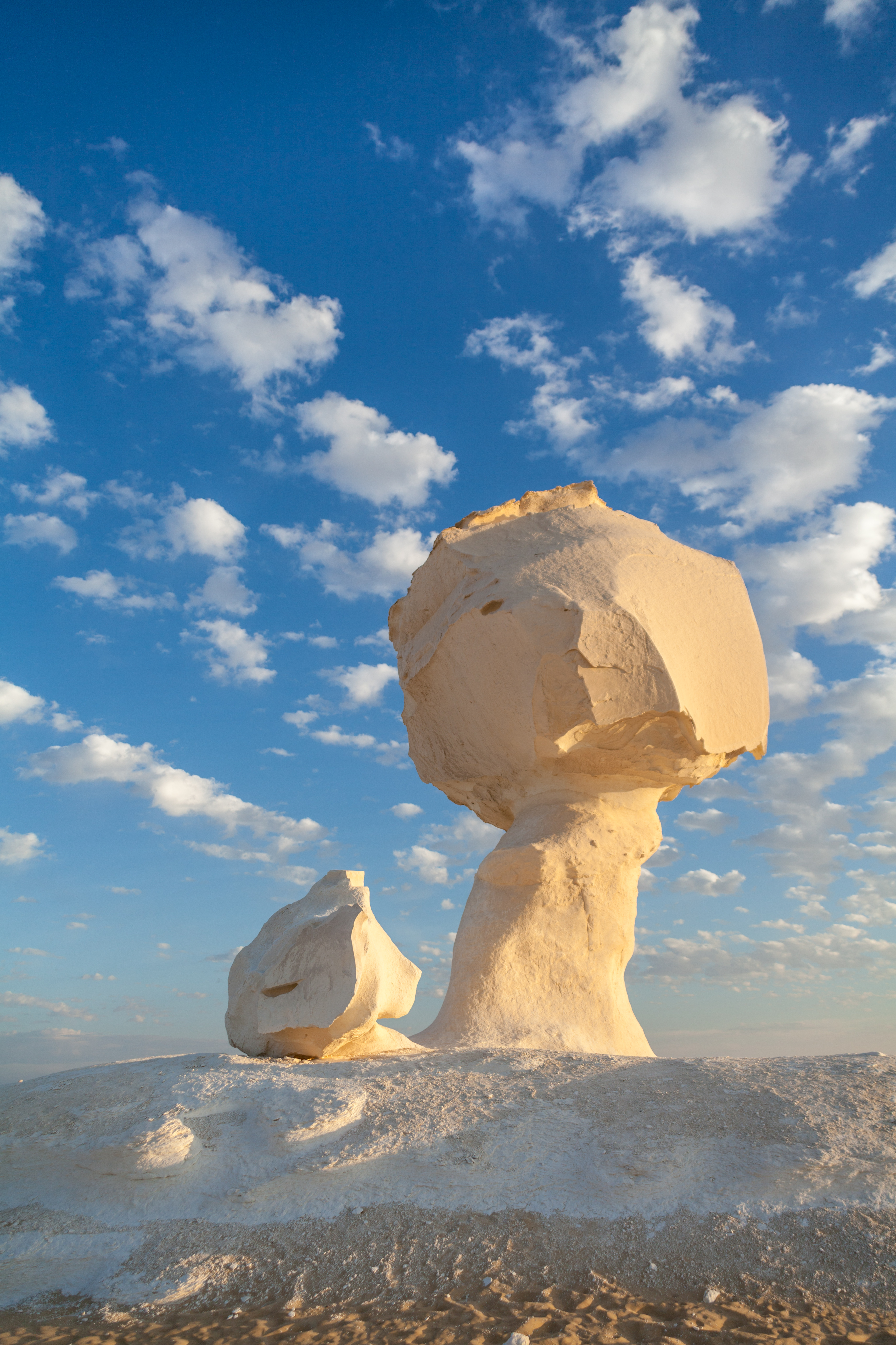 Al Farafrah, New Valley Governorate, Egypt